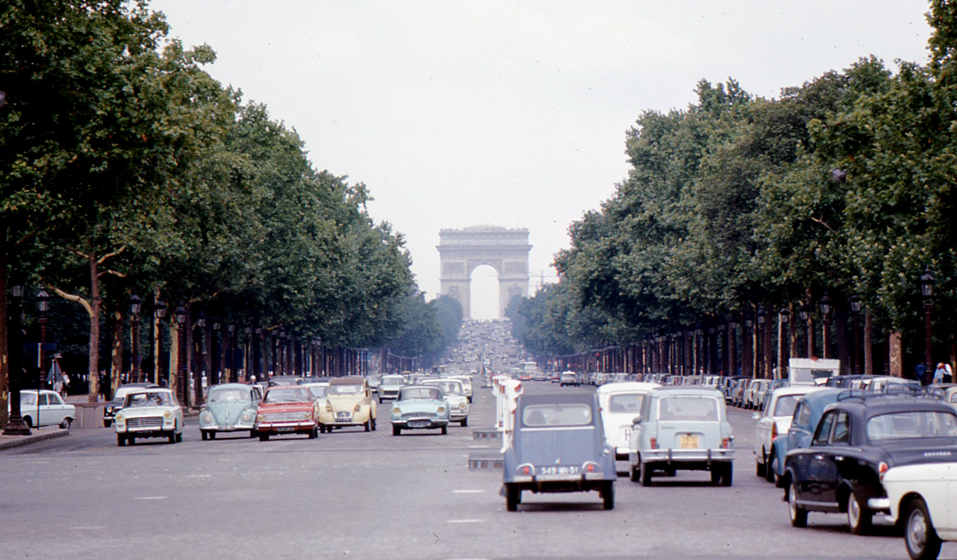 Champs-Élysées